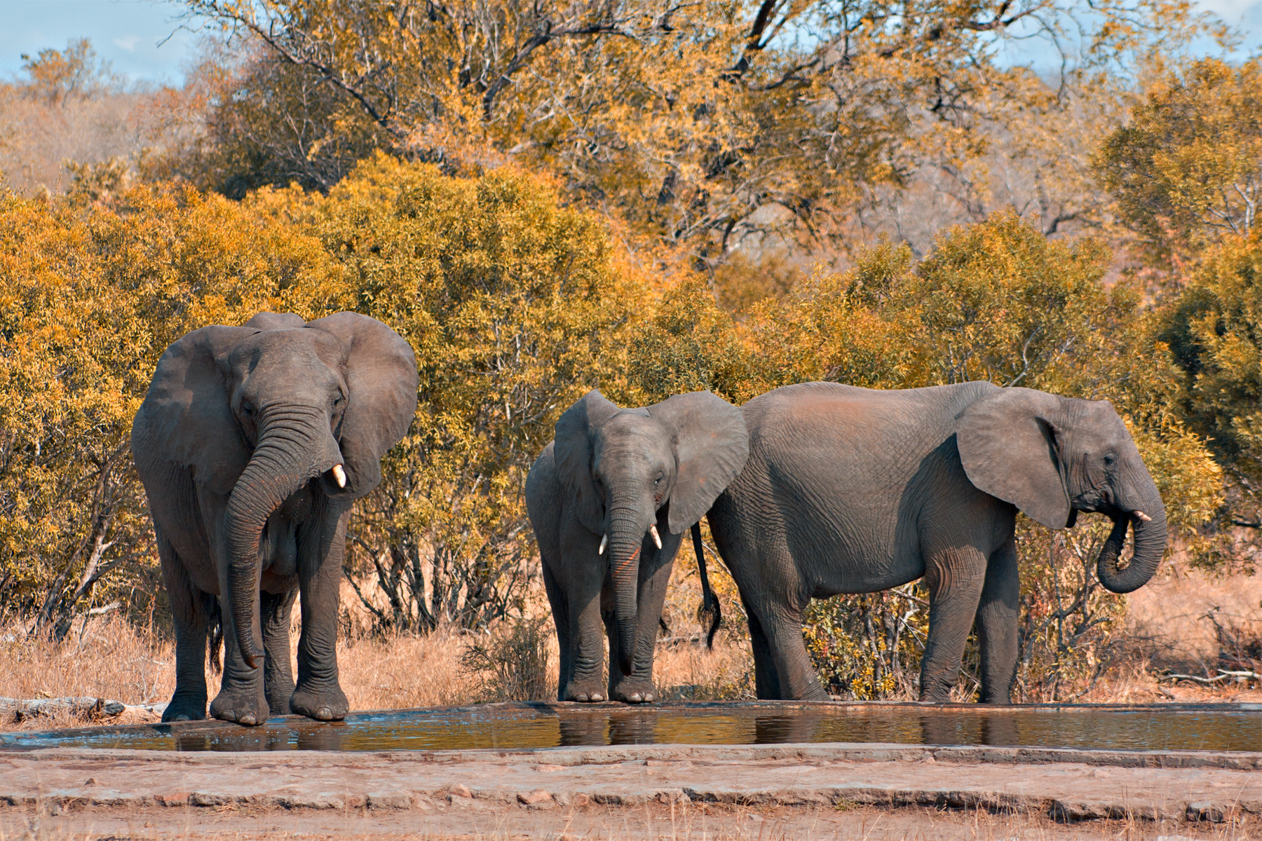 African elephants (loxodonta africana) in Kruger National Park, South Africa.